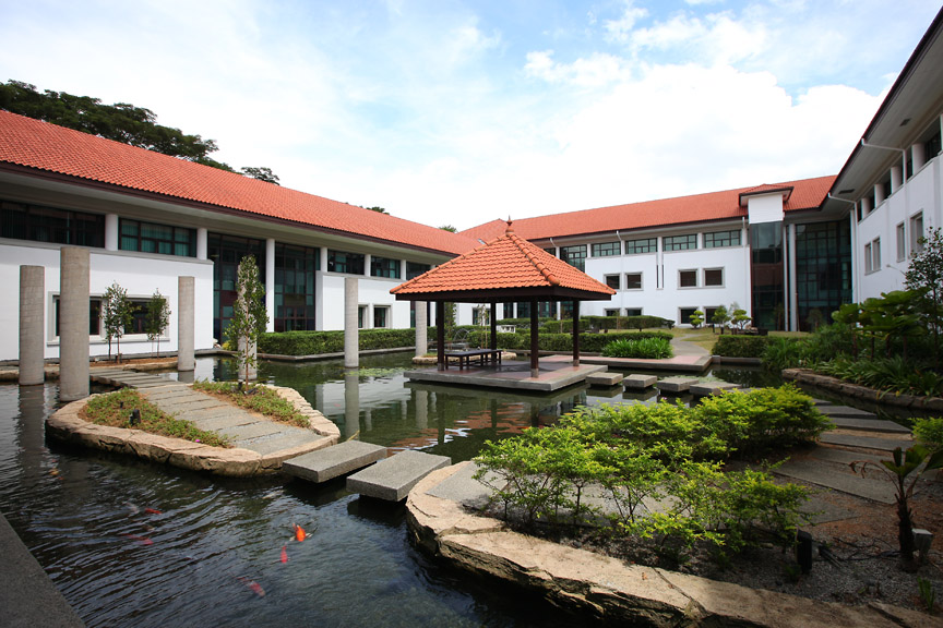 The courtyard koi pond of the Singapore Aviation Academy at Changi Village, Singapore.